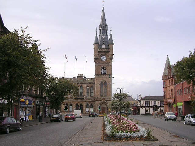 Renfrew Town Hall The steeple was built in 1872 to replace an earlier town hall on the site which dated from 1670.